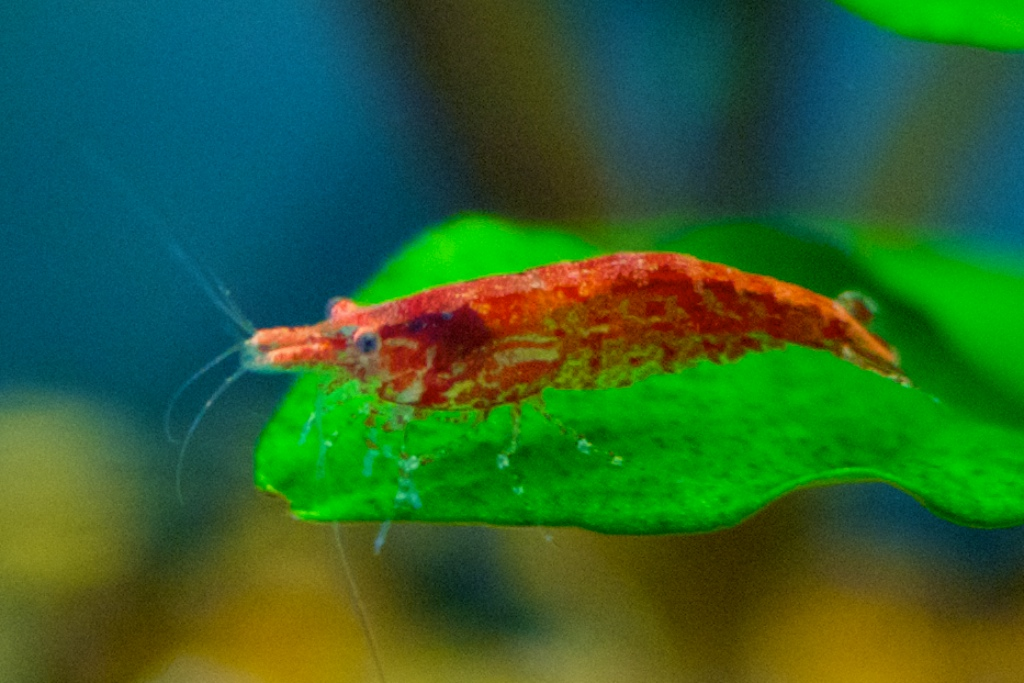 Red Cherry Shrimp